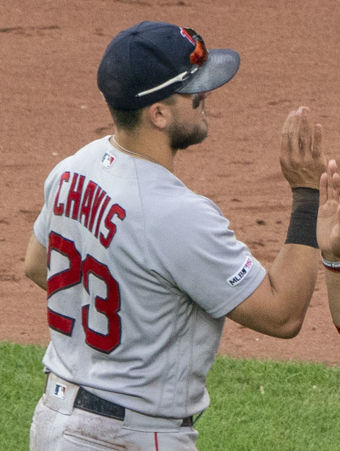 Michael Chavis, Rafael Devers and Boston Red Sox teammates congratulate each other after a win at Oriole Park at Camden Yards in Baltimore in 2019